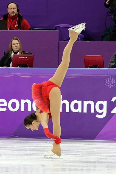 Alina Zagitova at the 2018 Winter Olympic Games - Free program